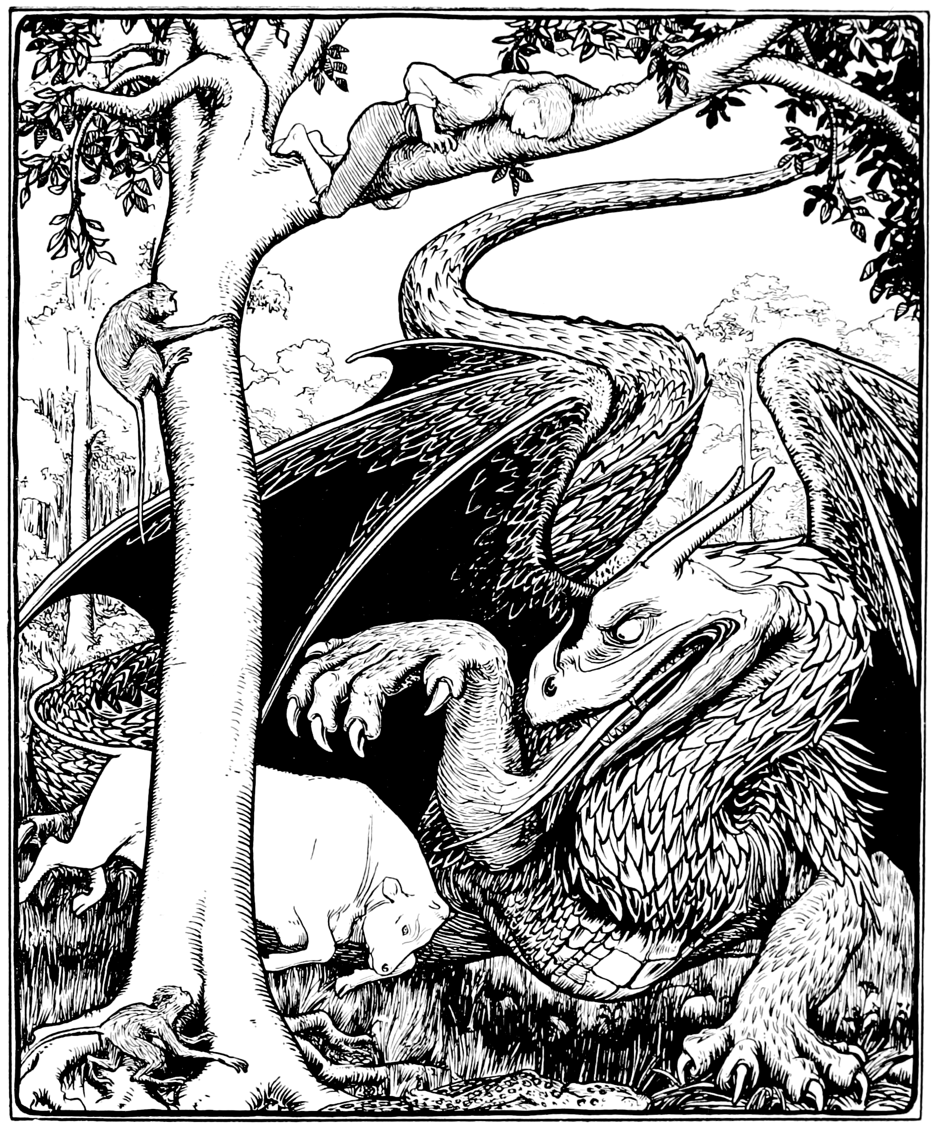 Scan illuatration on page of book in a series of fairy tales. A warning to children.